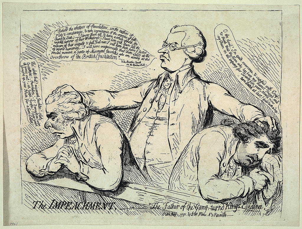 TITLE: The impeachment, or "The father of the gang turned Kings evidence" SUMMARY: Print shows Edmund Burke standing behind and with his hands on the heads of Richard B. Sheridan and Charles James Fox who bow before him over a railing, perhaps before Parliament. Burke says, "Behold the abettors of Revolutions, see the authors of Plots & conspiracies, & take cognizance of the enemies of both Church & State ... who are aiming at the Overthrow of the British Constitution." MEDIUM: 1 print : etching. CREATED/PUBLISHED: [London] : Pubd. by S.W. Fores, No. 3 Piccadilly, 1791 May. CREATOR: Gillray, James, 1756-1815, artist.